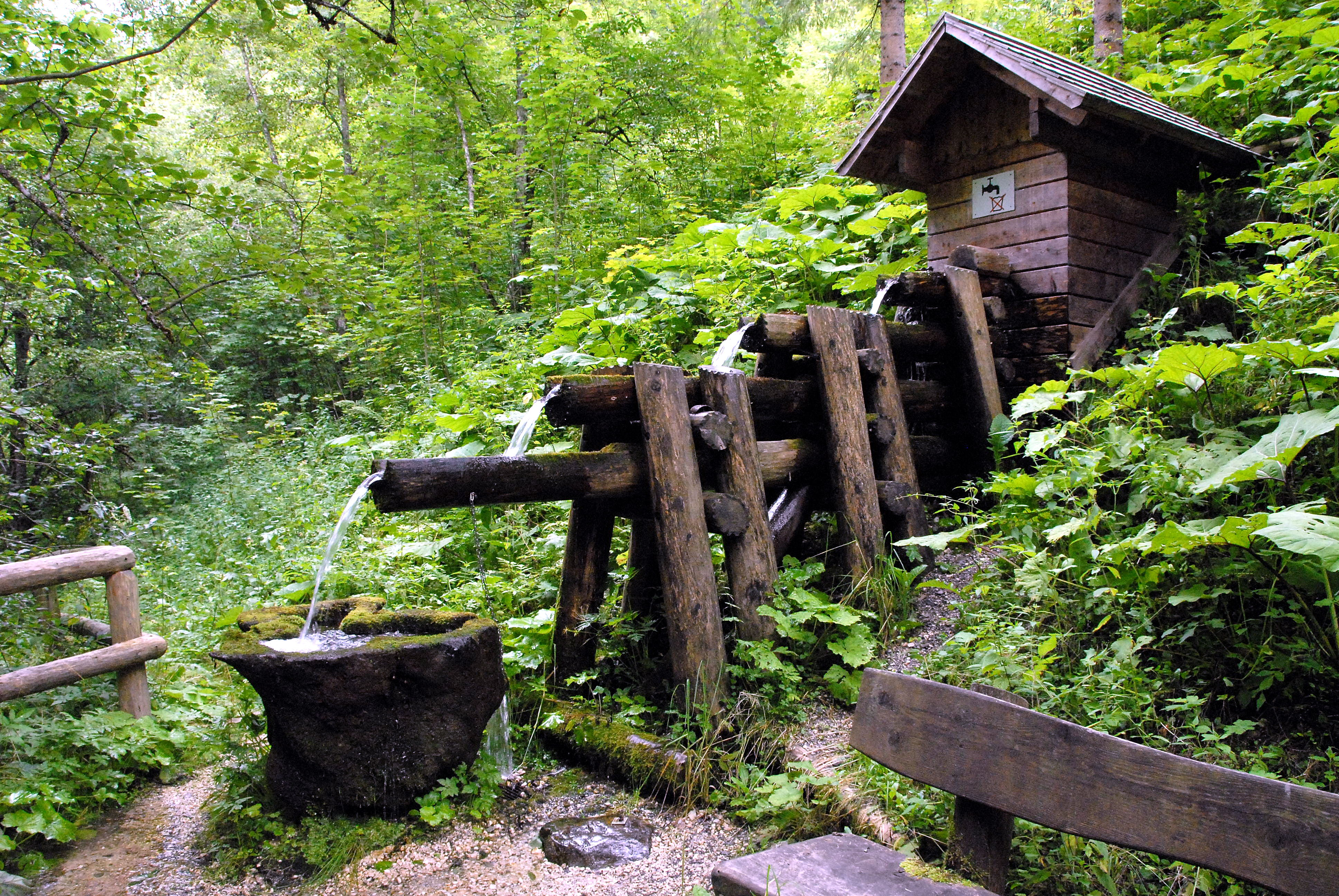 Water well "Silver well" close to the Troegern brook near the Troegern canyon in the community Eisenkappel-Vellach, district Völkermarkt, Carinthia, Austria, European Union.